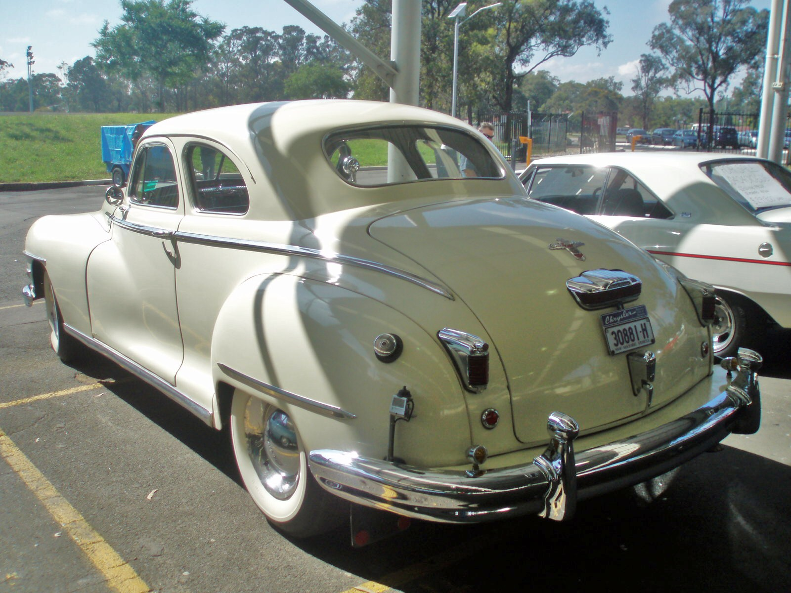 1948 Chrysler New Yorker Highlander Fluid Drive coupe. Taken at the 2010 New South Wales All Chrysler Day, held at Fairfield Showground, Prairiewood, Sydney.